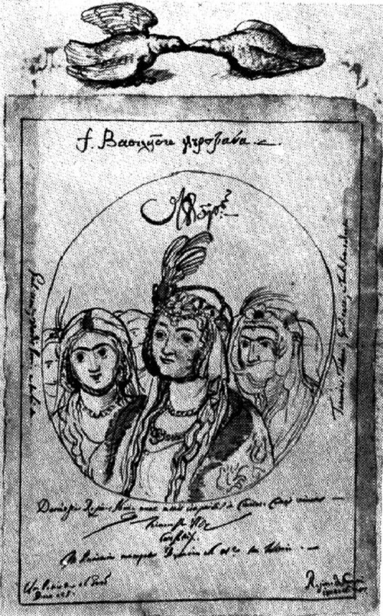 Darejan, Queen of Imereti. A sketch by the Catholic missionaire Don Cristoforo De Castelli